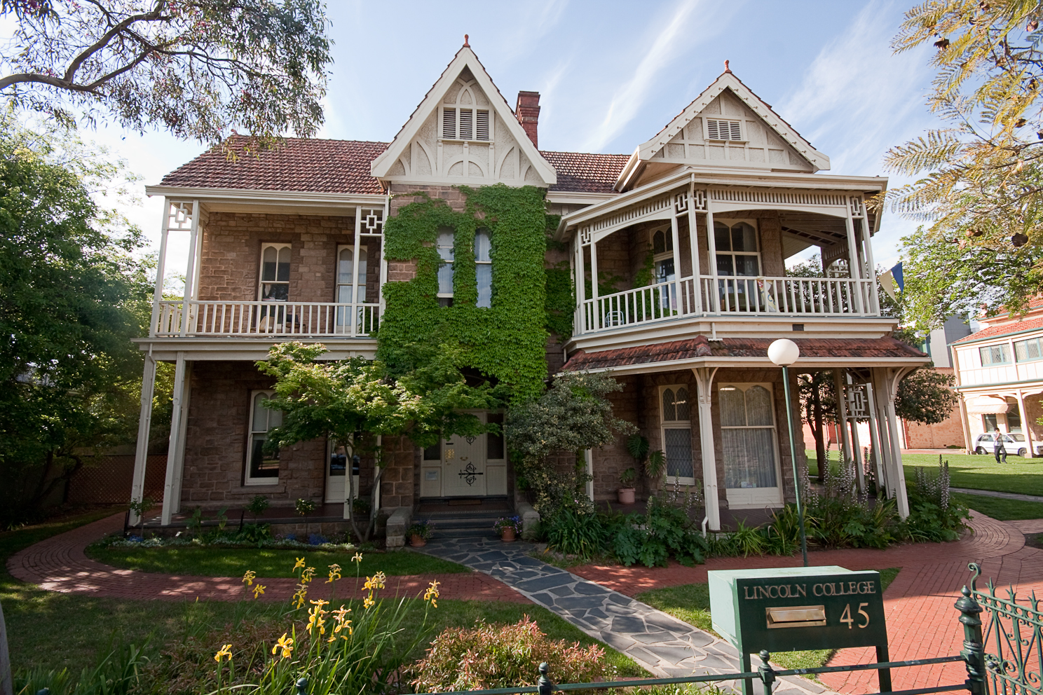 Lincoln College Administration Building, 45 Brougham Place North Adelaide